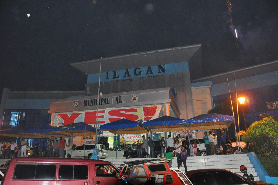 Ilagan City Hall after becomes a city in 2012. Owned by Province of Isabela and it is public domain.